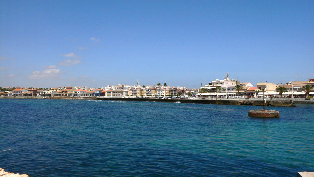 View of the harbour of Cabo de Palos (Cartagena, Spain)